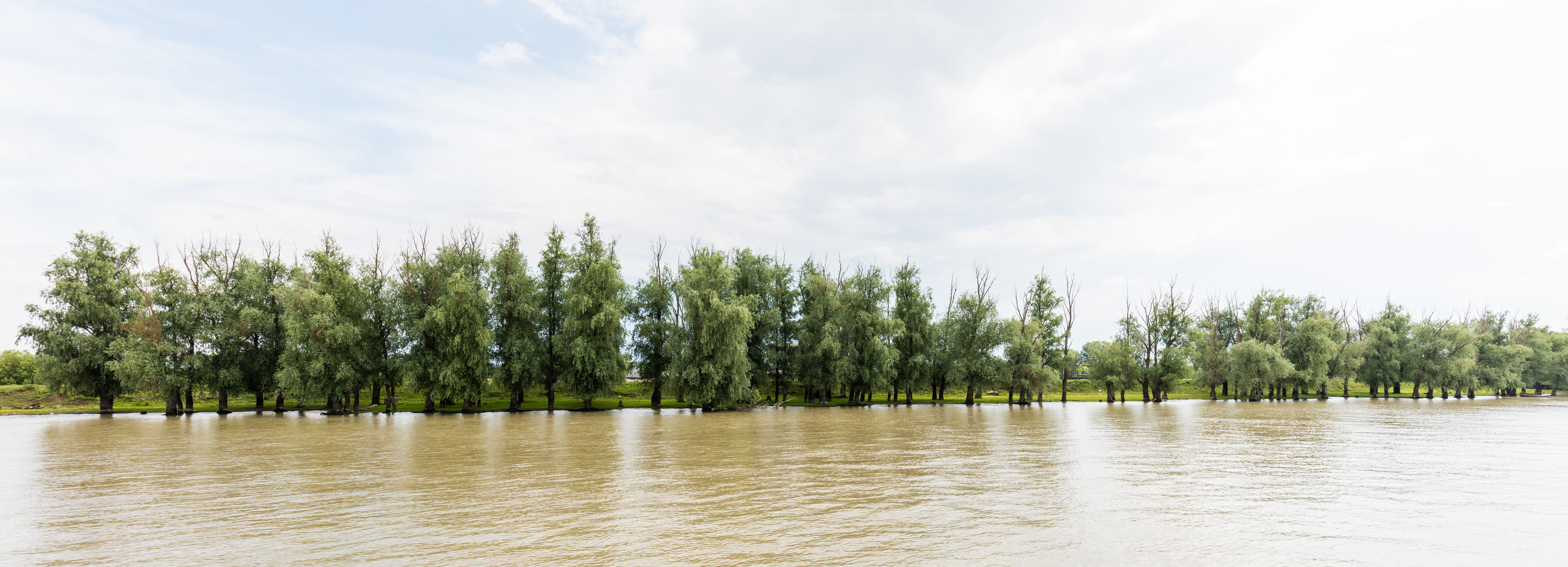 Danube Delta, Romania